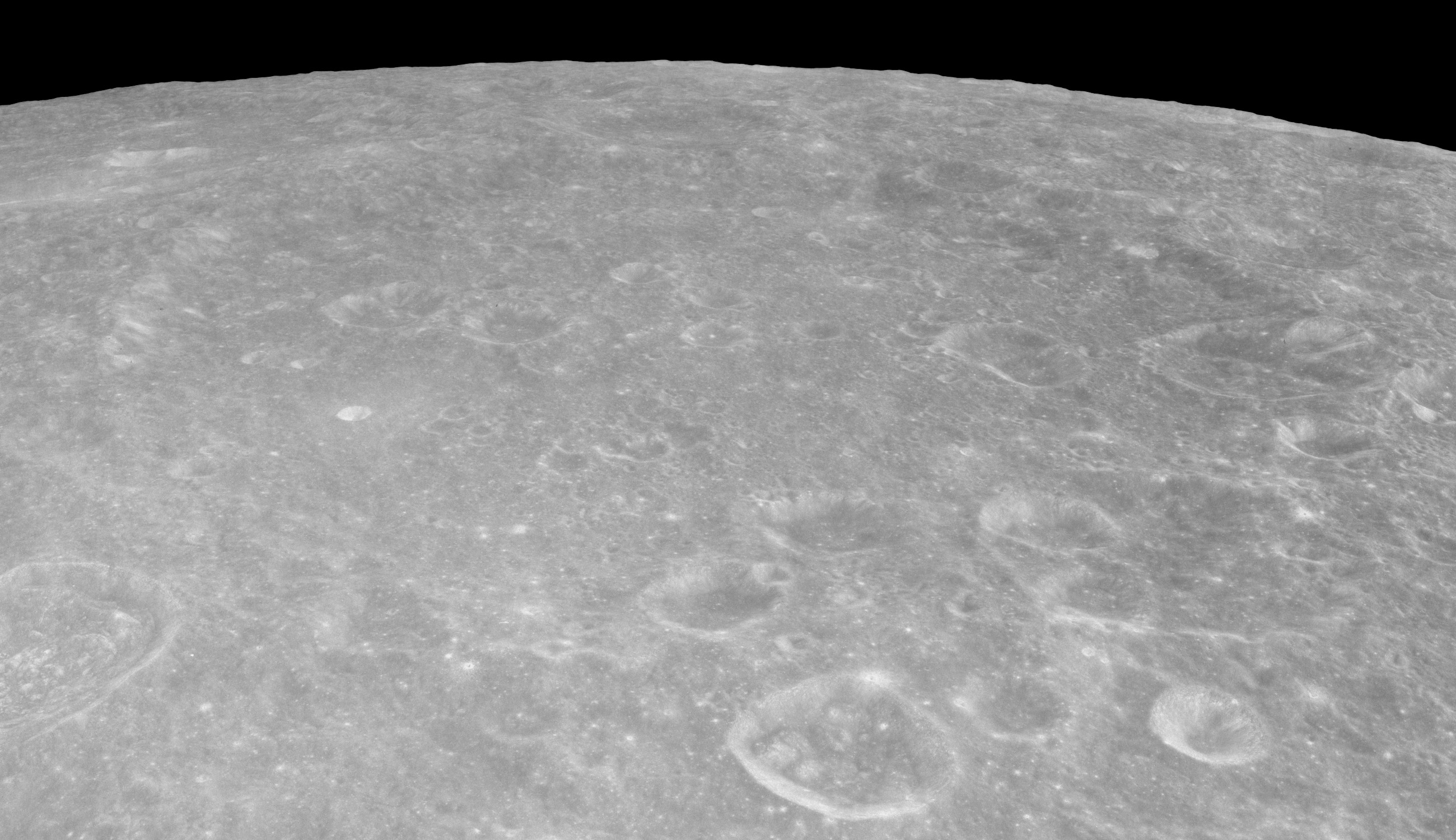 Pasteur, on the moon.